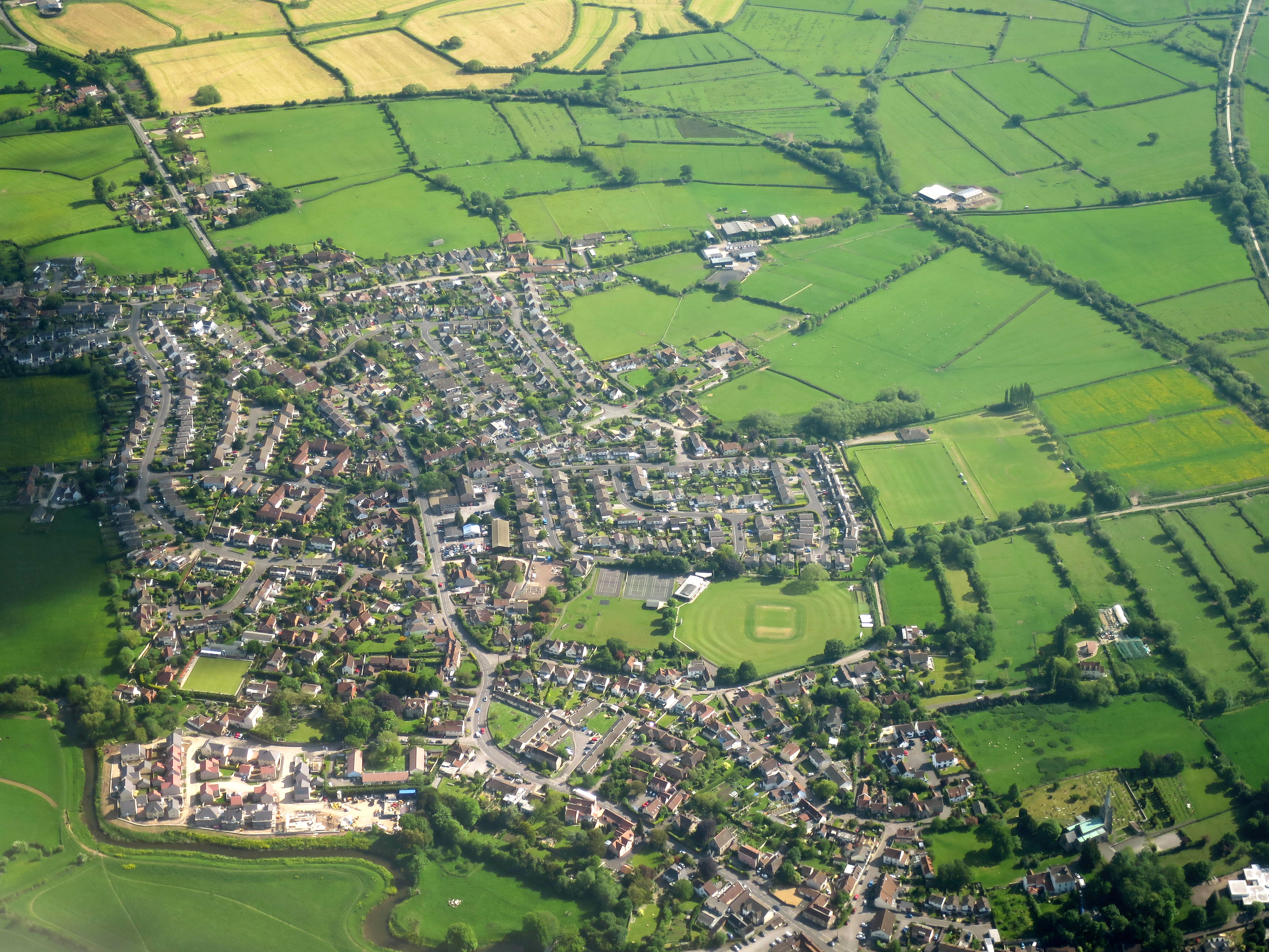 Aerial photograph of Congresbury village in North Somerset, England